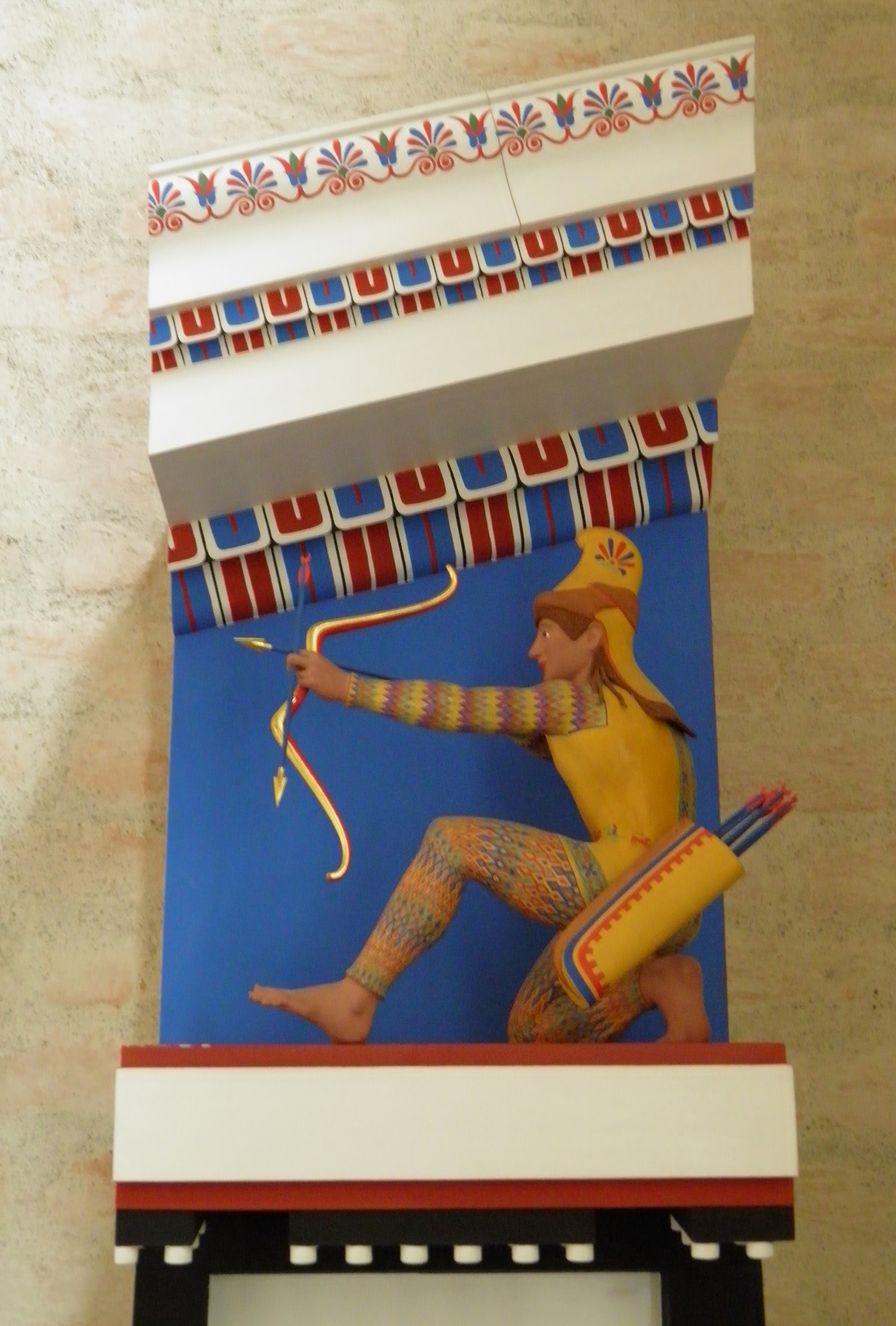 Painted reconstructions of the sculptures from the West Pediment of the Temple of Aphaea on Aegina, original statues from Aegina (Greece), c. 500/490 BC or after 480 BC, Glyptothek Munich